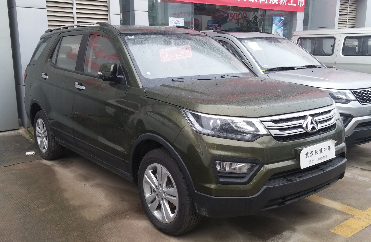 Chana CX70 photographed in Wuhan, Hubei province, China.